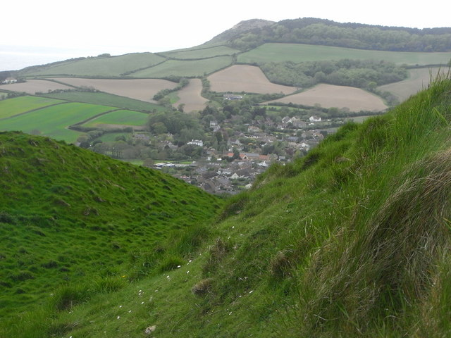 Chideock from Quarry Hill In the background are Langdon Hill and Golden Cap in squares to the west.